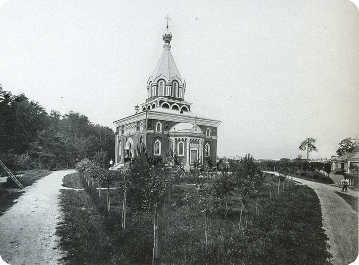 Alexander Nevsky church in Moscow